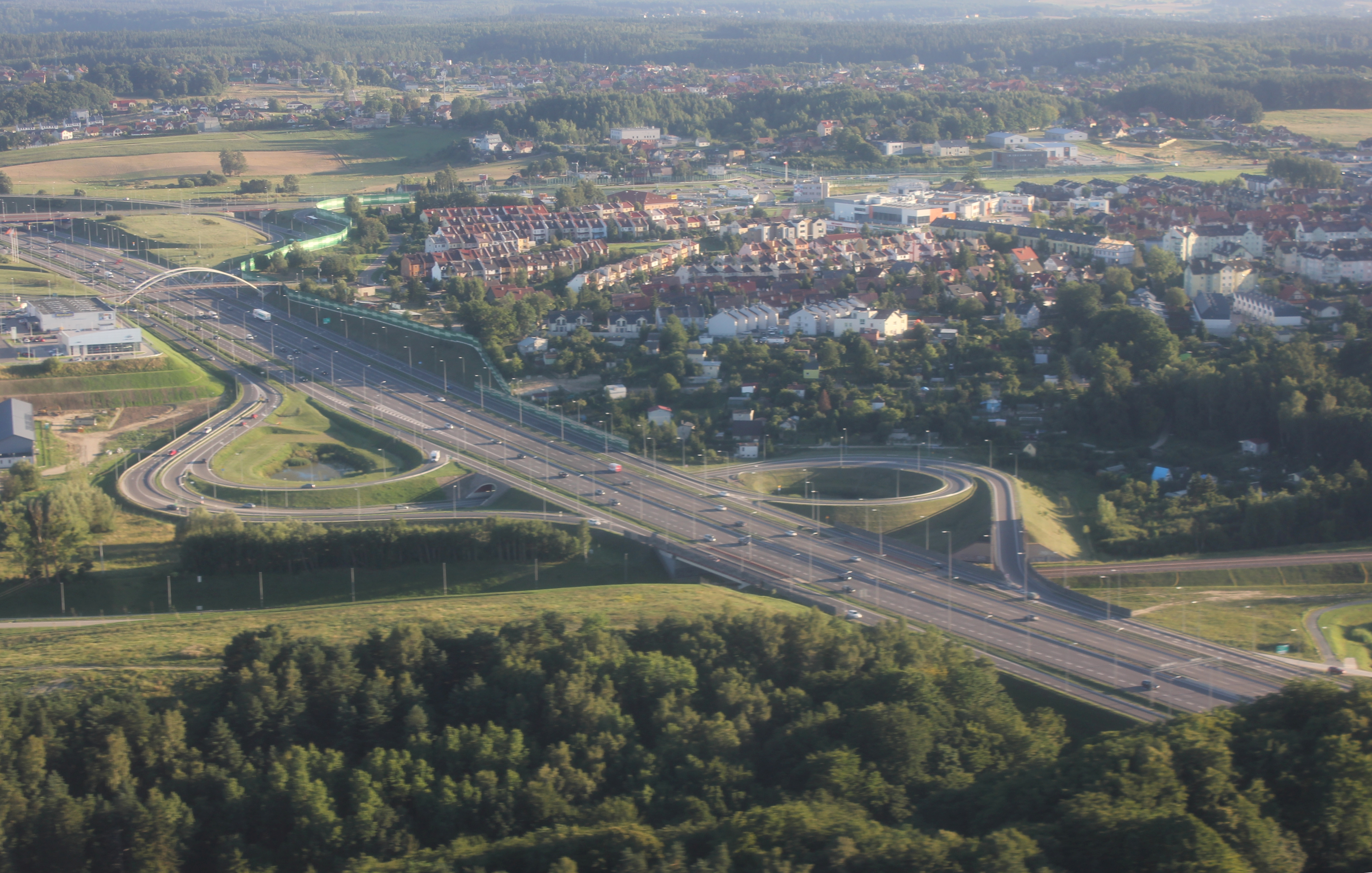 Gdańsk - Trójmiasto bypass (S6 expressway) - Karczemki